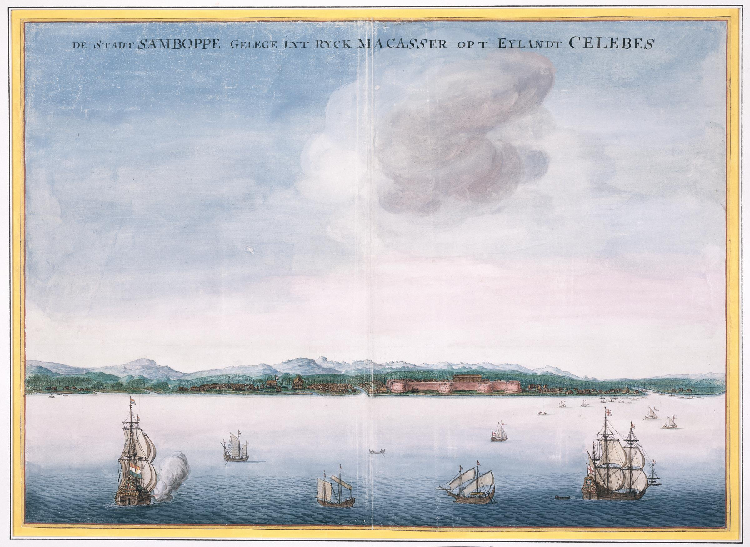 Title in the Leupe catalogue (NA): Gezicht op als voren van de zeezijde, which refers to the title of VELH0619.96 Gezicht in vogelvlucht op ,,de stadt Samboppe int rijck Macassar van de zeezijde. Corresponds to the illustration rendered in Valentijn III, 2nd part, page 138. Above the caption De Stadt Samboppe gelege Int Ryck Macasser op t Eylandt Celebes. Depicted in the foreground are ships, in the centre housing and right of centre a fort; in the background one can see mountains. Cf. Koninklijke Bibliotheek, The Hague, inv. nr. 693 C 6 dl XV, na p. 134.